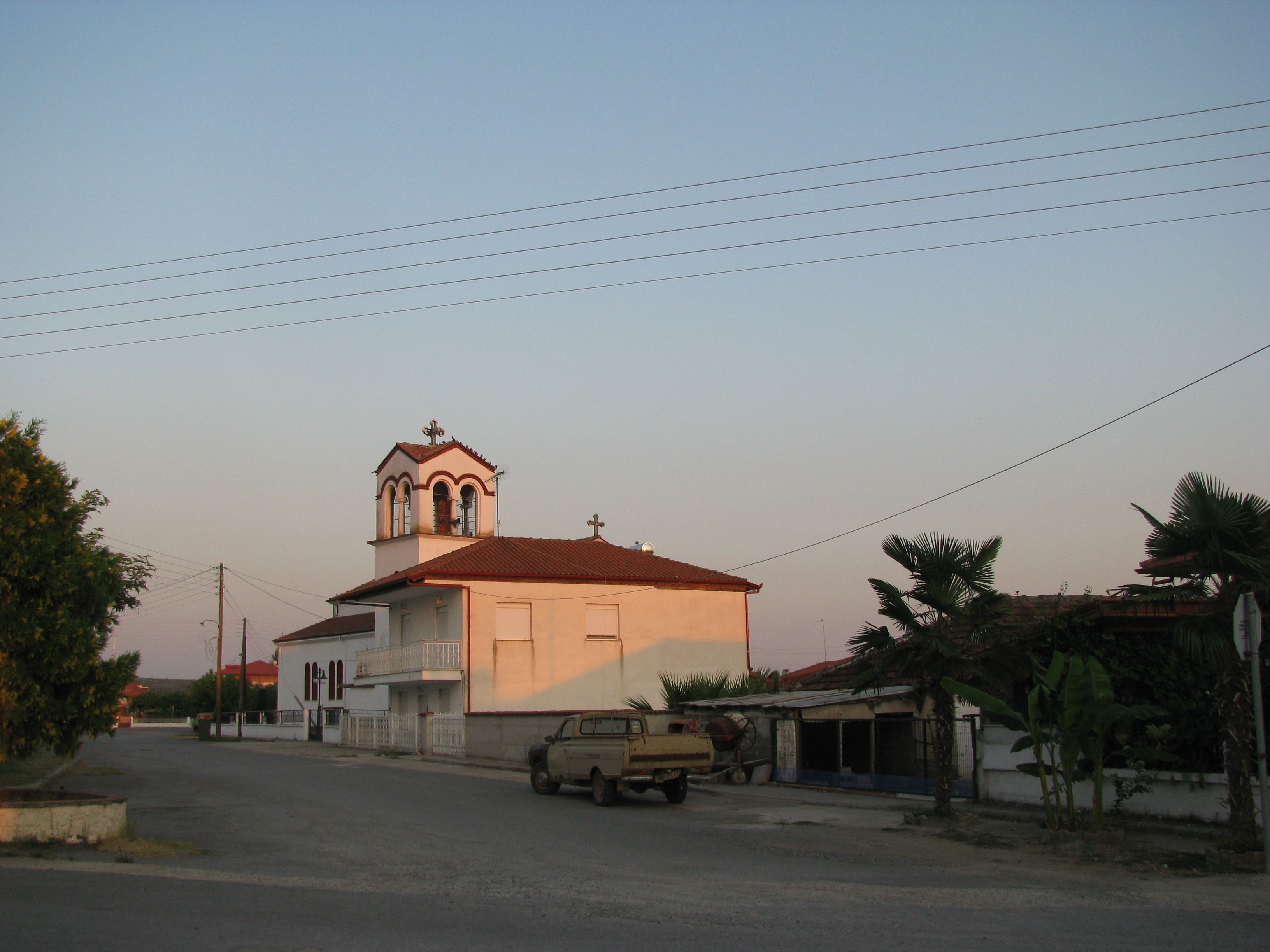 Church in Kashlar or Ahladohori, Aegean Macedonia